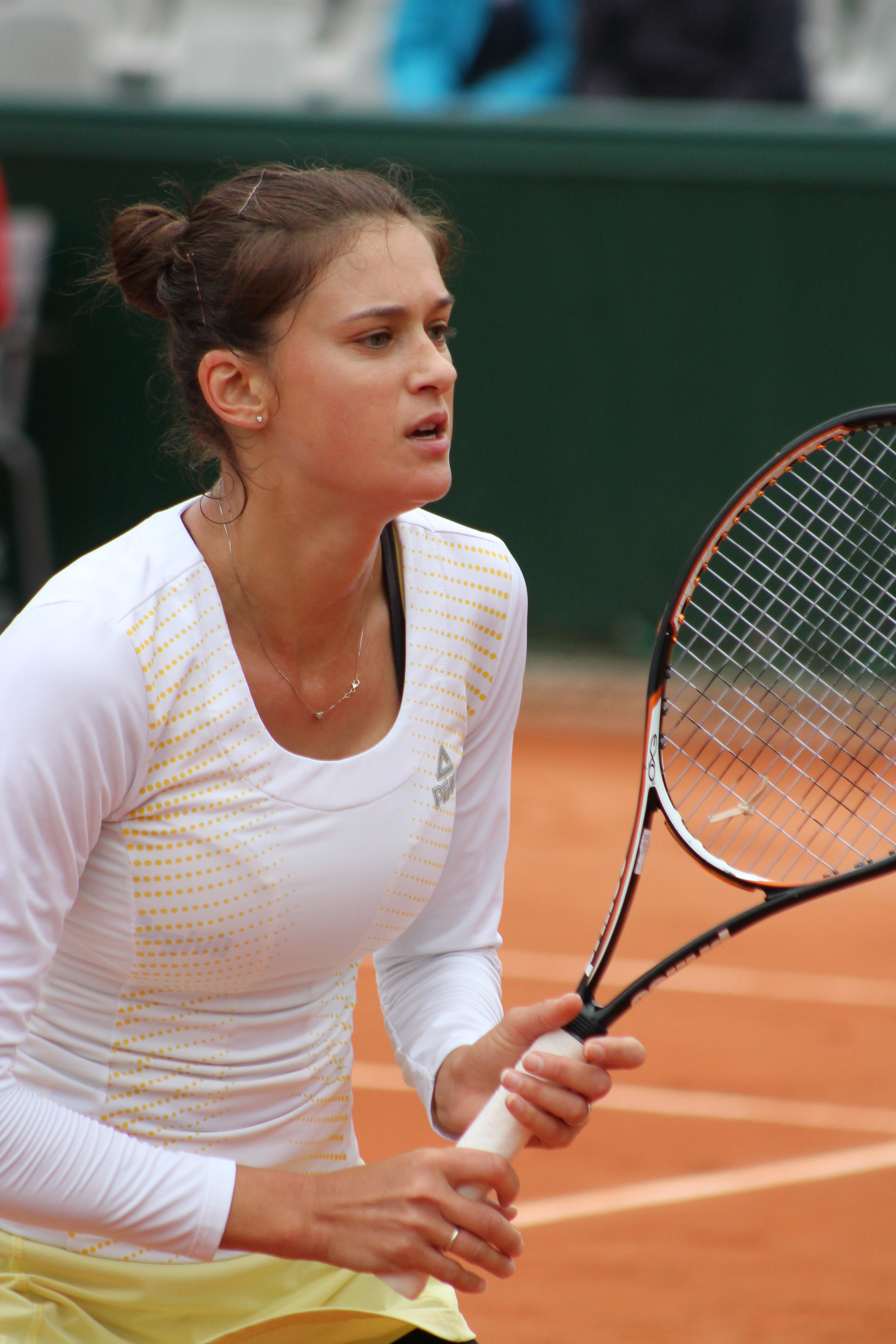 Irina Buryachok playing at Roland Garros 30 May 2013